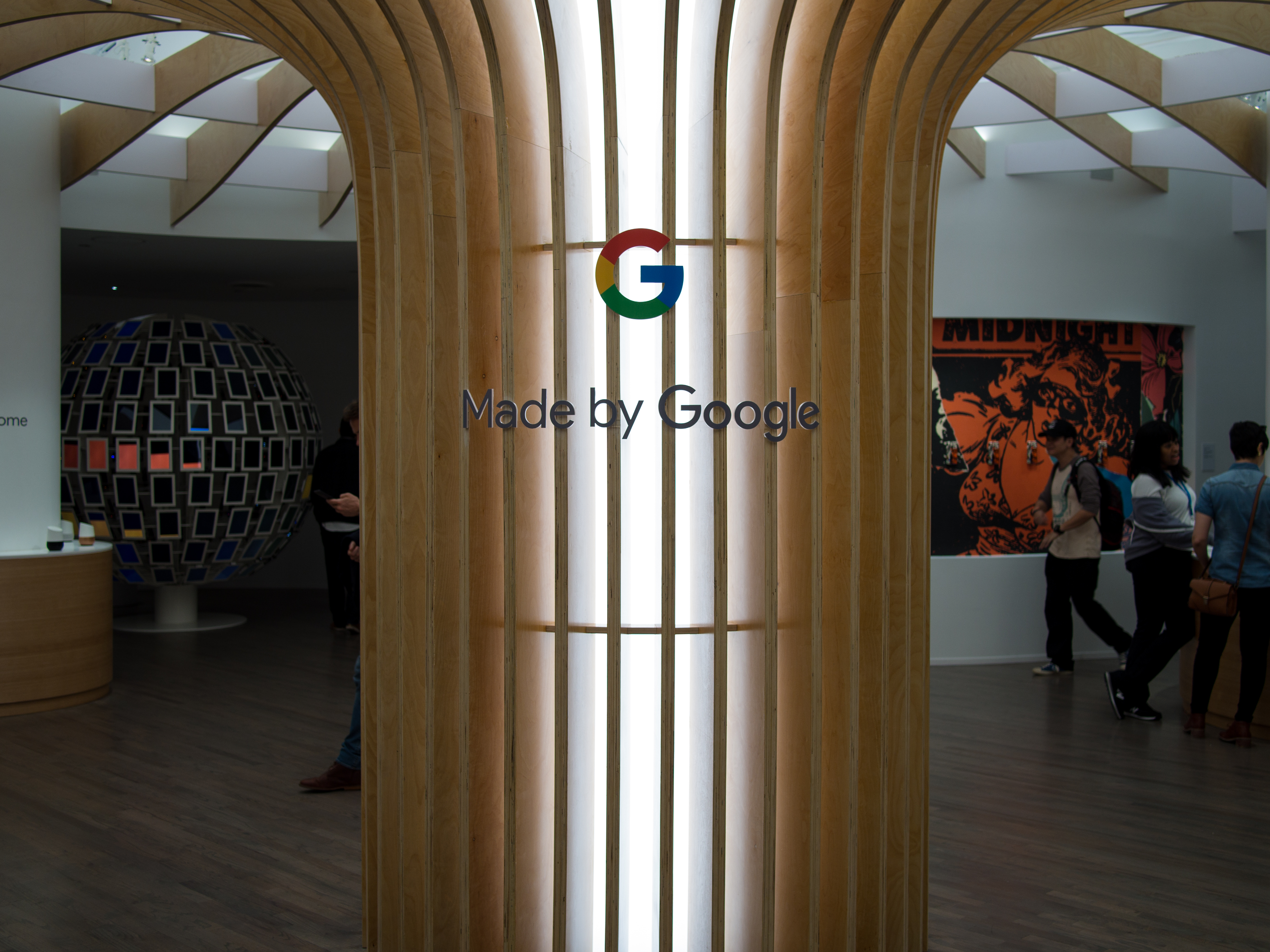 Made By Google store in Manhattan.